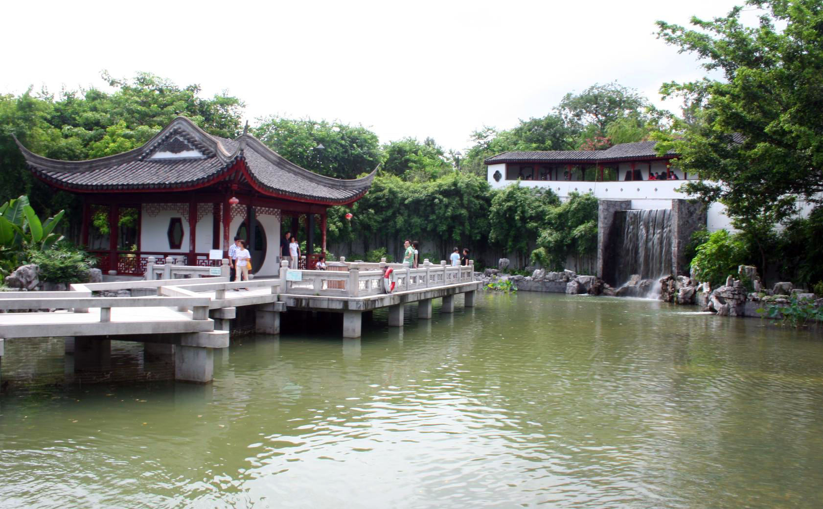 Kowloon Walled City Park 九龍寨城公園 is now located in today's Kowloon City District, Hong Kong. Photograph author is me.